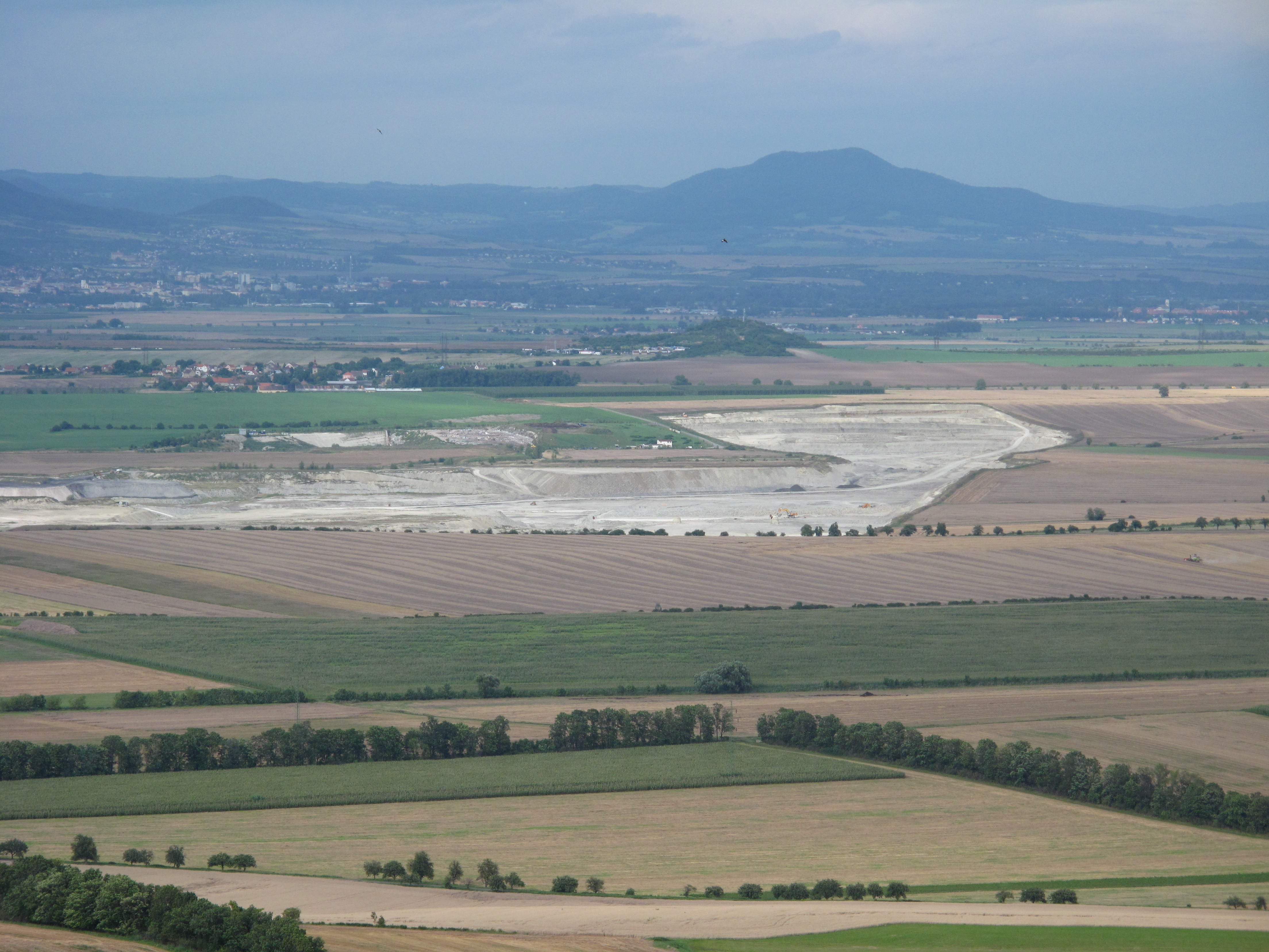 Calcium oxice mining near Úpohlavy village as seen from Hazmburk Castle (ruin), Litoměřice District, Czech Republic.